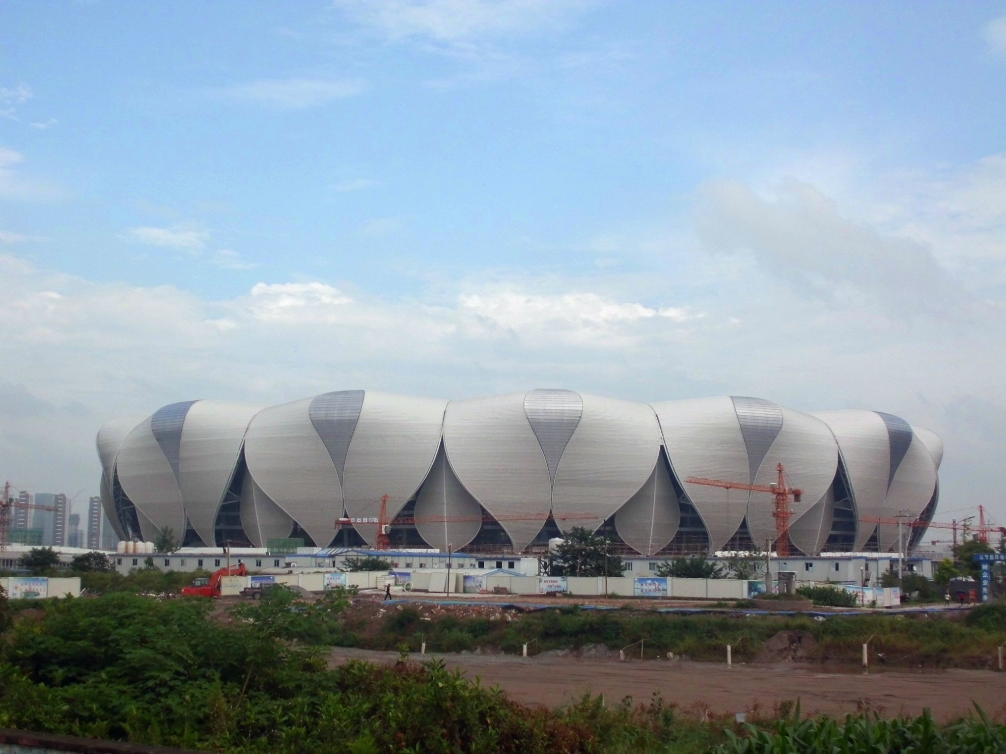 Hangzhou Olympic Sports Expo Center